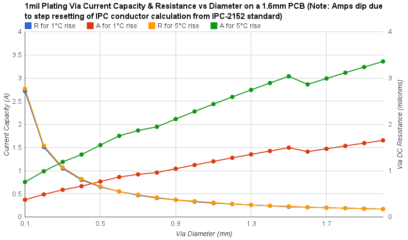 PCB Via current capacity chart showing 1mil Plating Via Current Capacity & Resistance vs Diameter on a 1.6mm PCB Data derived from Saturn PCB Toolkit v6.51 using IPC-2152 data. Note: dips in the Amps values are due to step area calculations from the IPC-2152 standard graphs. All values are within +/-10% of the chart values however In practice the capacity will of course increase monotonically.